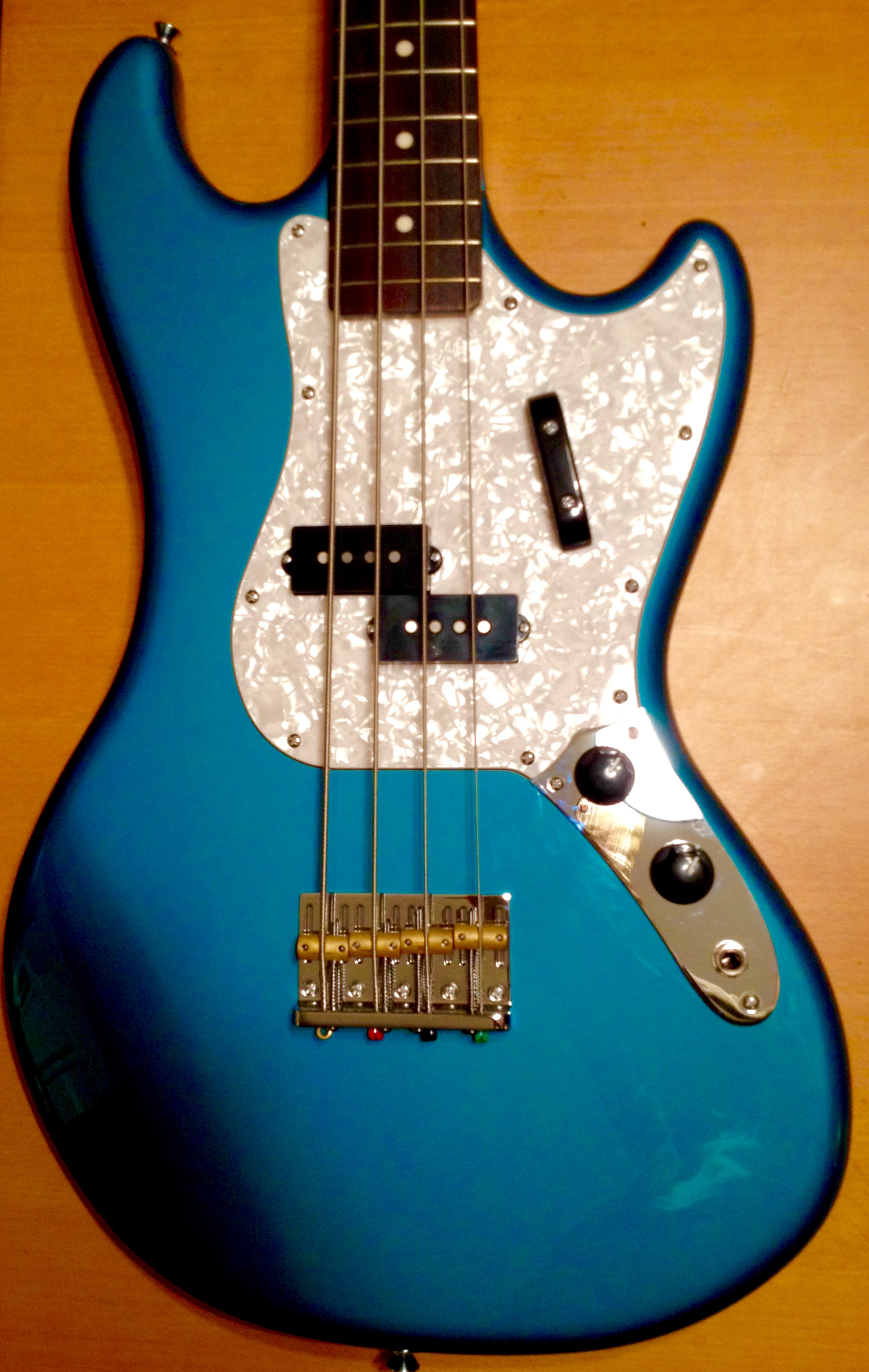 Squier Gary Jarman Signature Bass